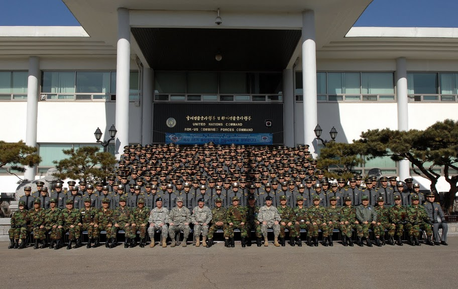 Photo by SSG Nicholas Salcido